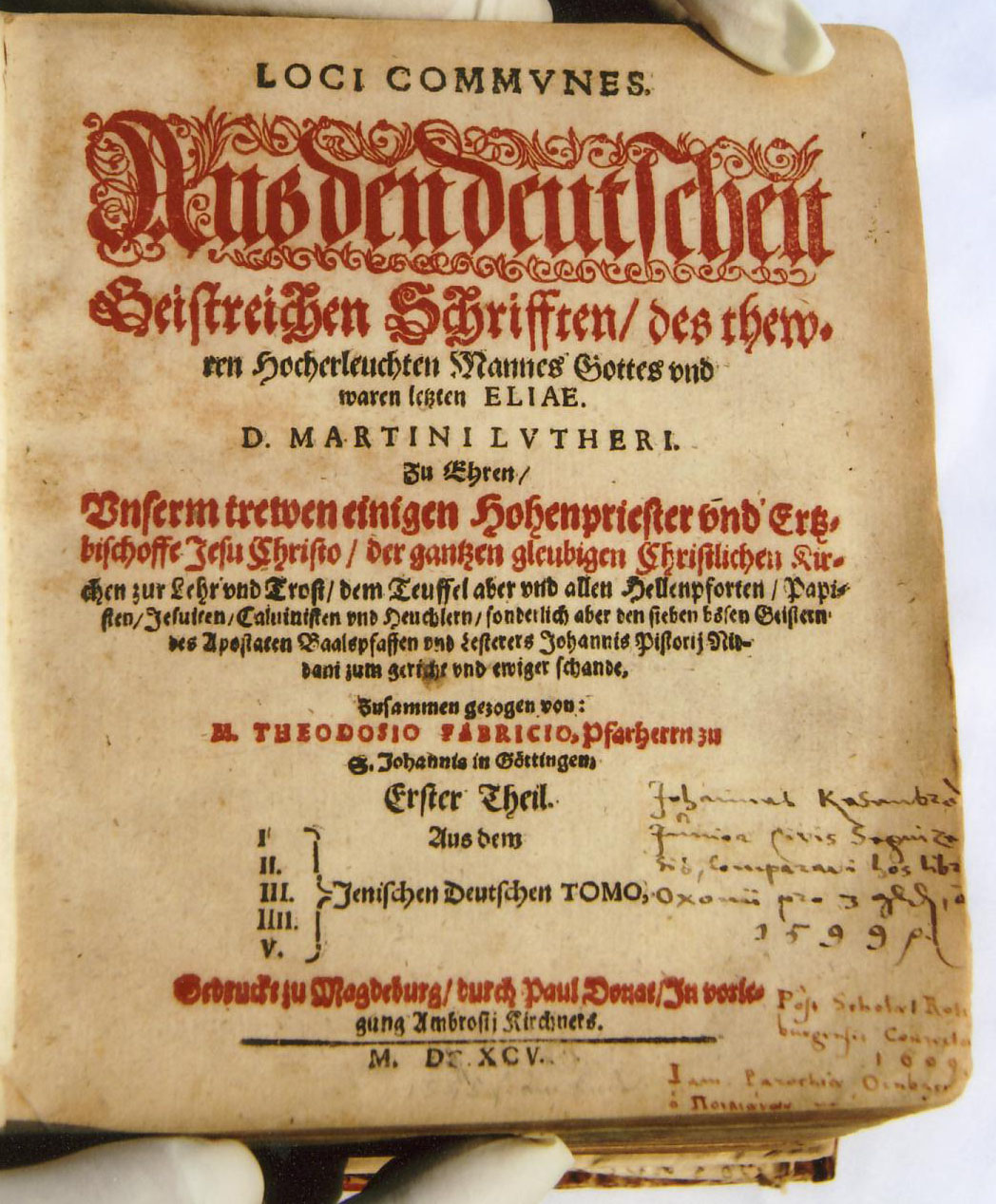 Title page of first part of the Loci Communes compiled by Theodosius Fabricius in 1597.